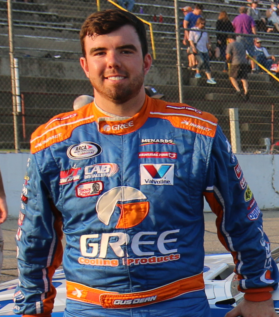 ARCA driver Gus Dean posing for a photograph at Madison International Speedway.